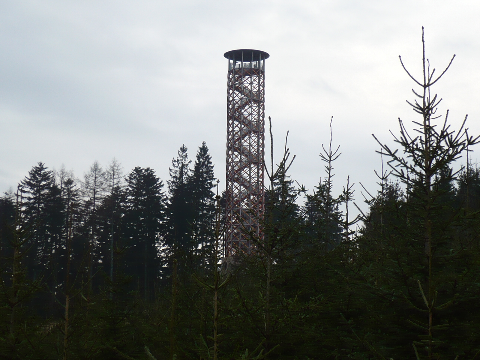 Observation tower Vartovna, near Valasska Polanka, Beskydy, The Czech Republic